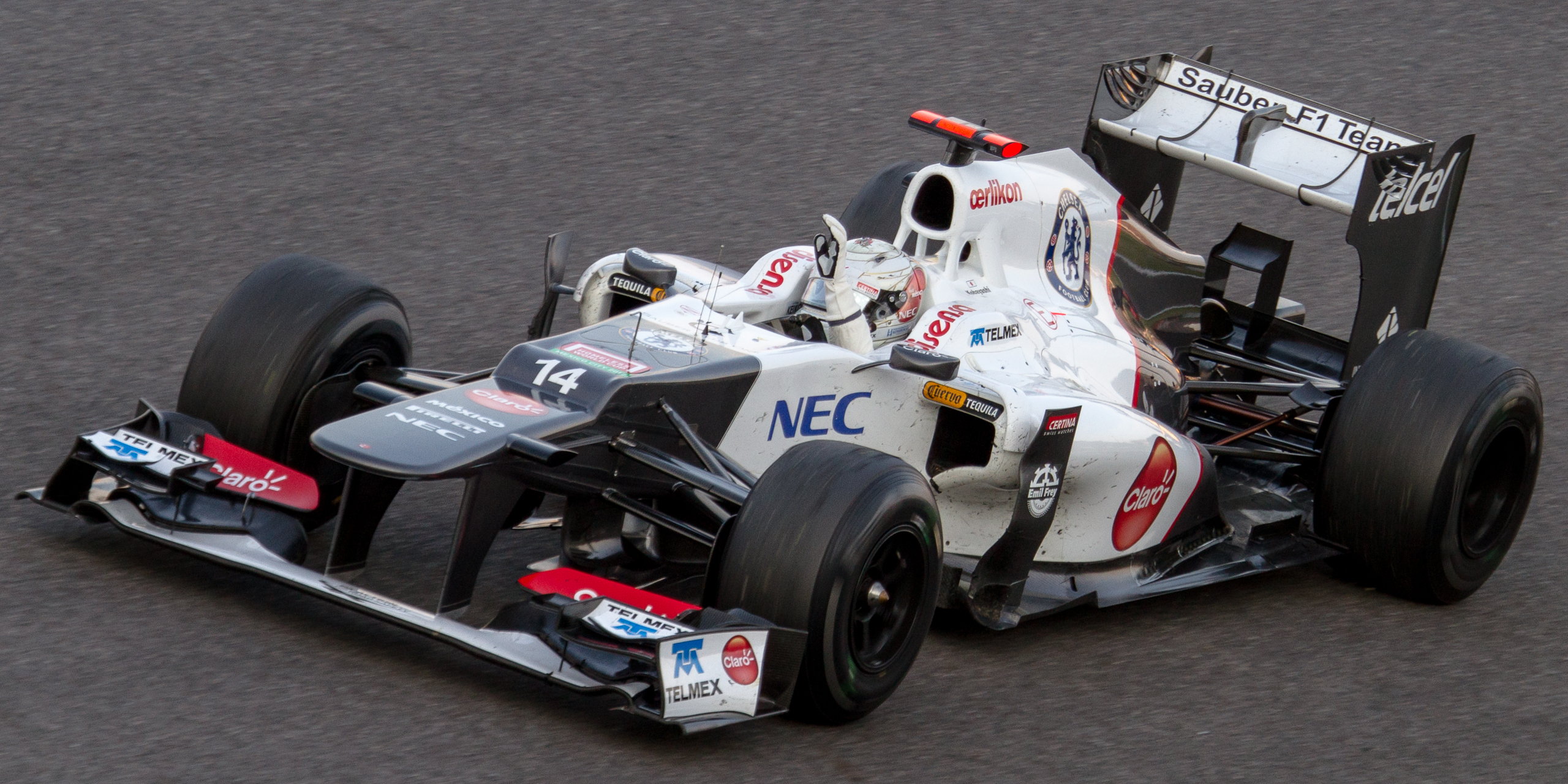 Formula One 2012 Rd.15 Japanese GP: Kamui Kobayashi (Sauber) celebrates podium finish in the race.